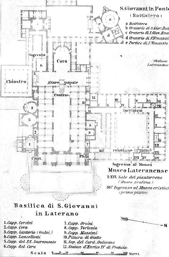 Lateran basilica plan (1900)